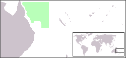 Map of the location of the Coral Sea Islands